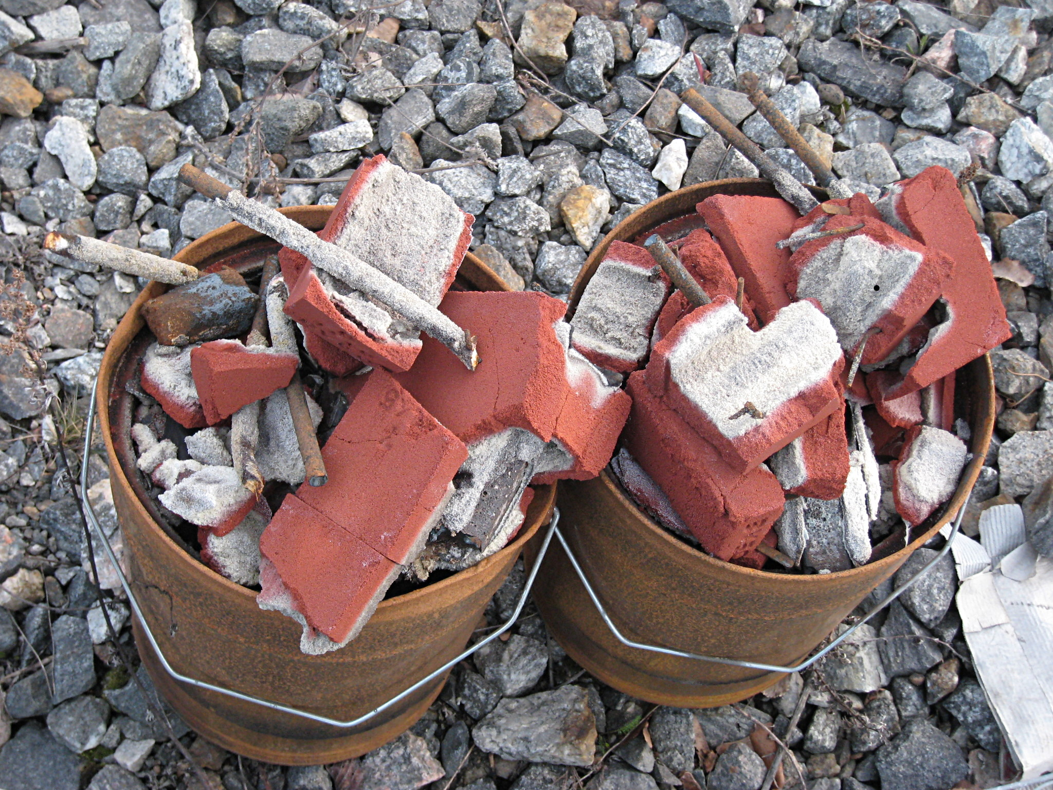 Two buckets of thermite residues left by railway workers after welding tracks. Found and photographed by Årstafältet tramway station (line Tvärbanan), Stockholm, Sweden